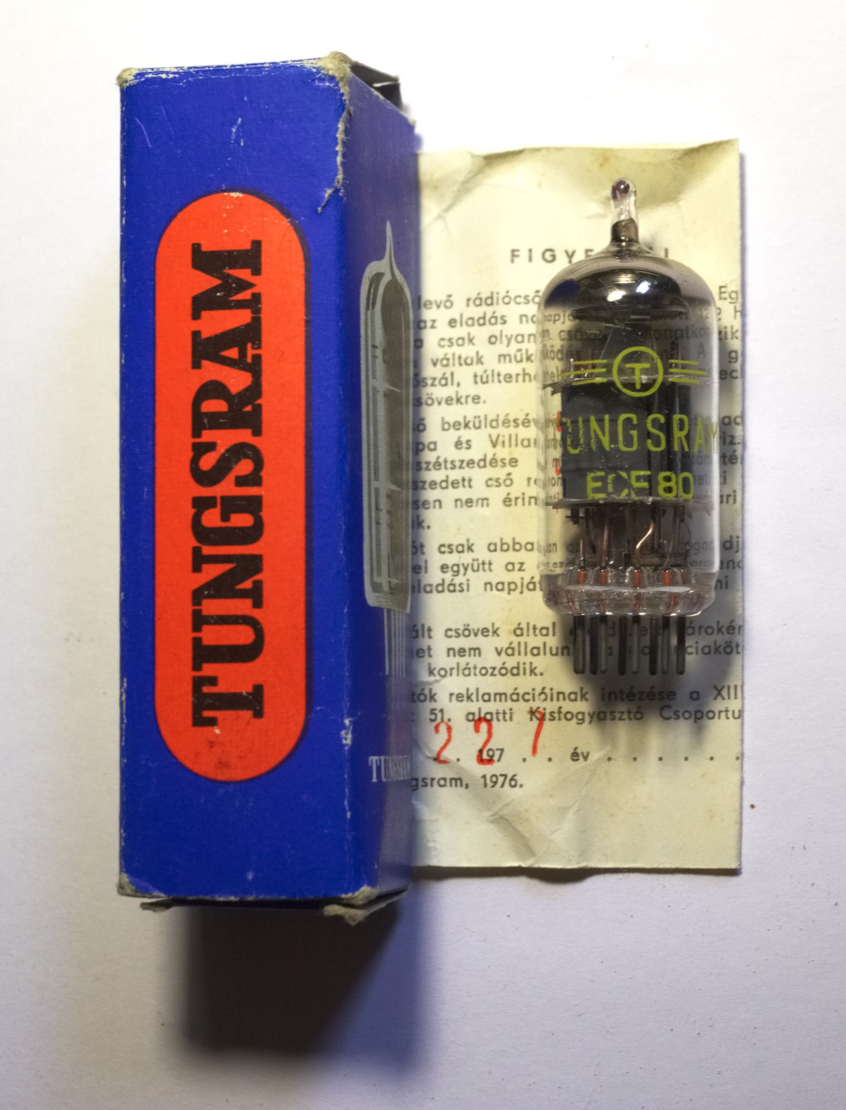 Tungsram retail-packaged ECF80 tubes. Made 1977 (marked on paper; there's a 3227 YO date code on the tube itself